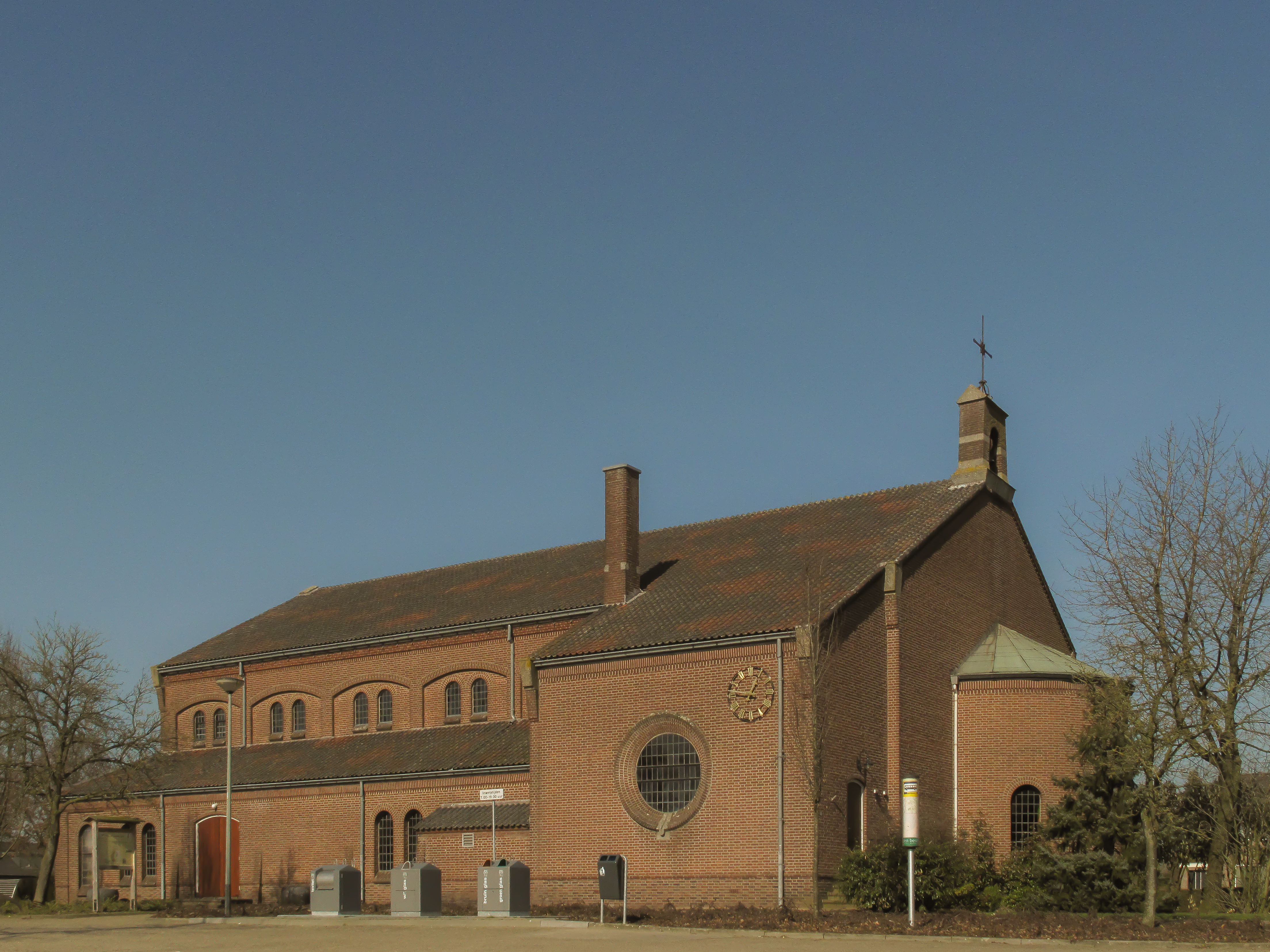 Ven-Zelderheide, chapel: de Sint Antonius Abtkapel